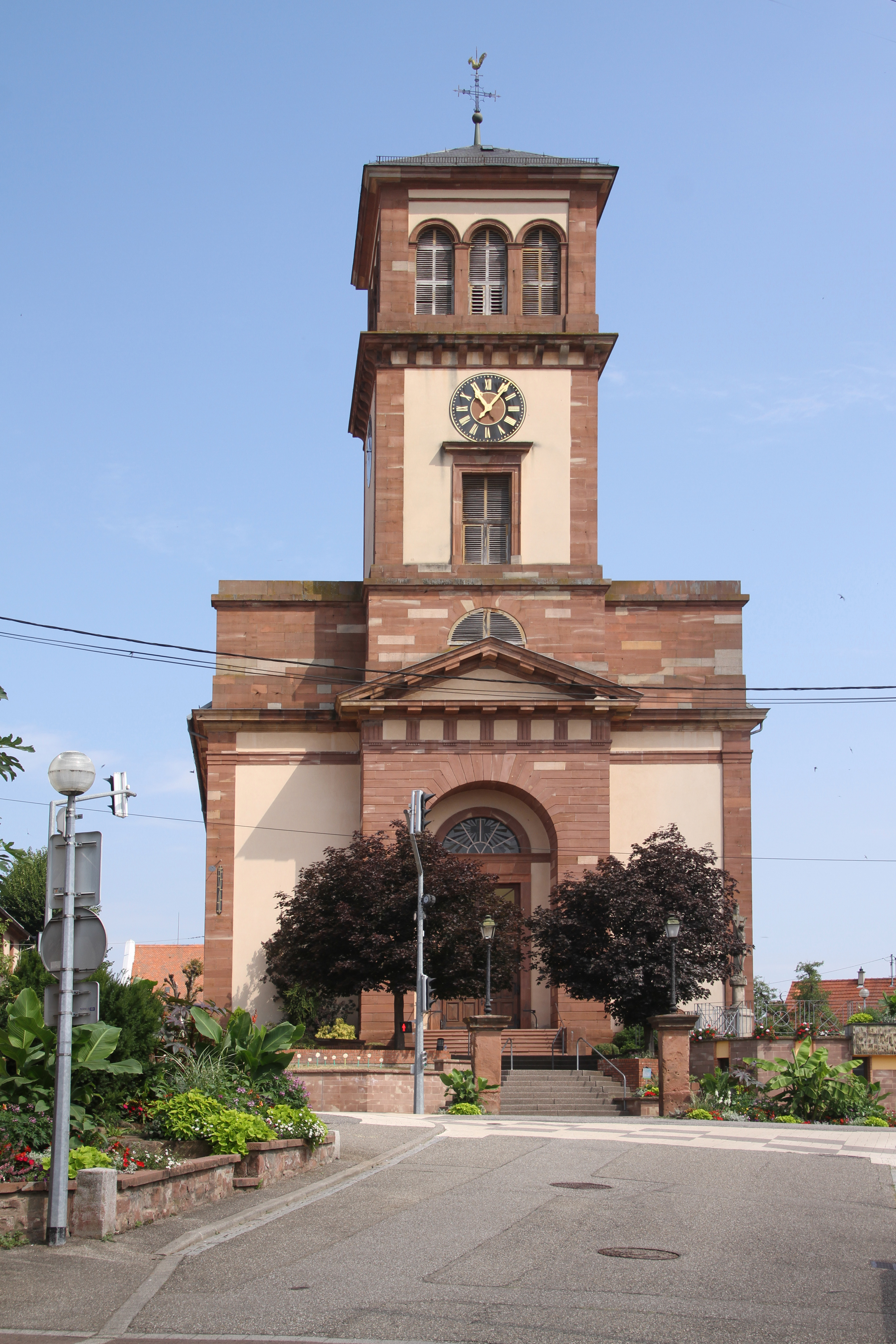 Church of Saint Michael in Soufflenheim.